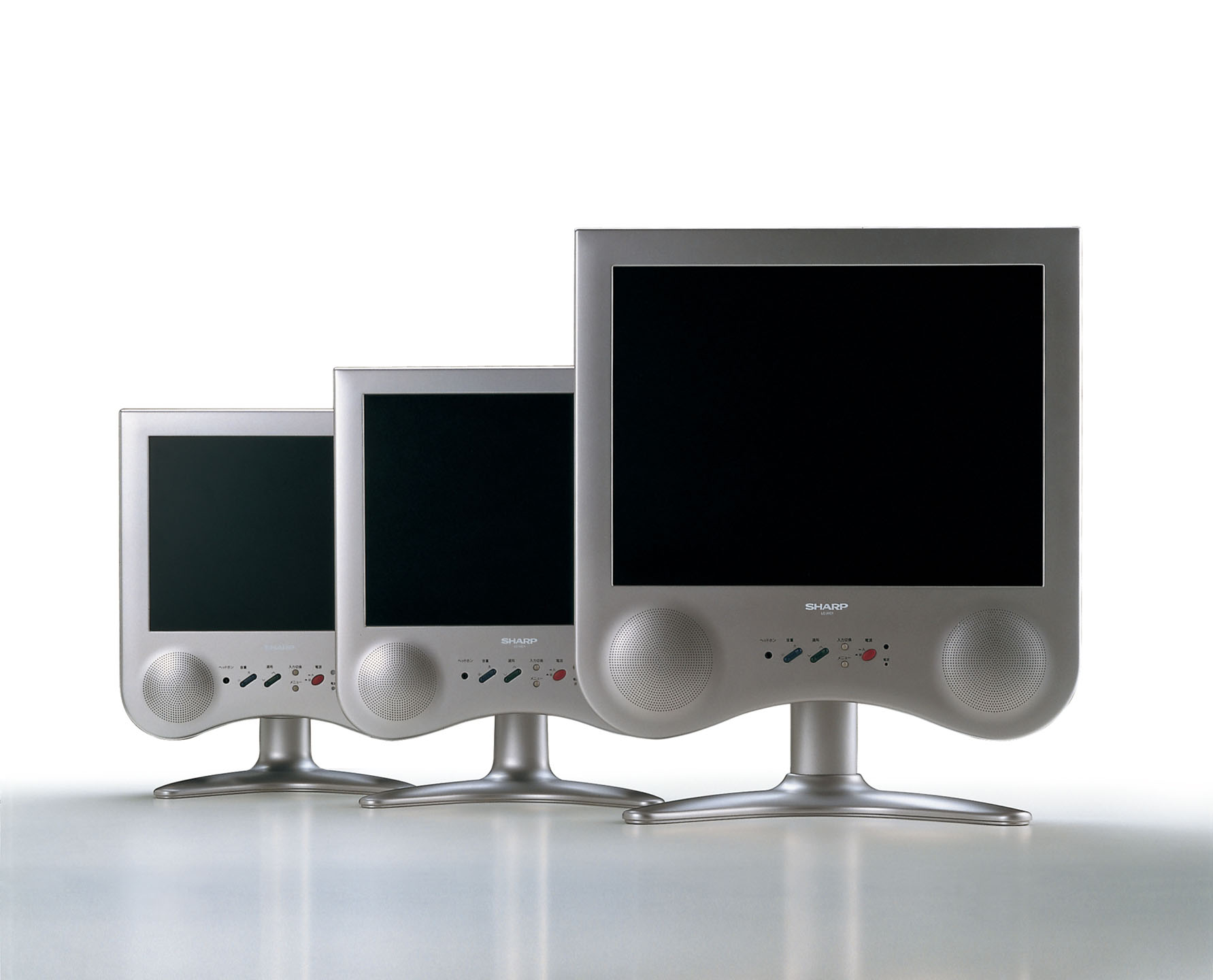 Works of KITA Toshiyuki 006